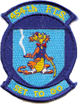 Emblem of the 454th Flying Training Squadron (ATC)